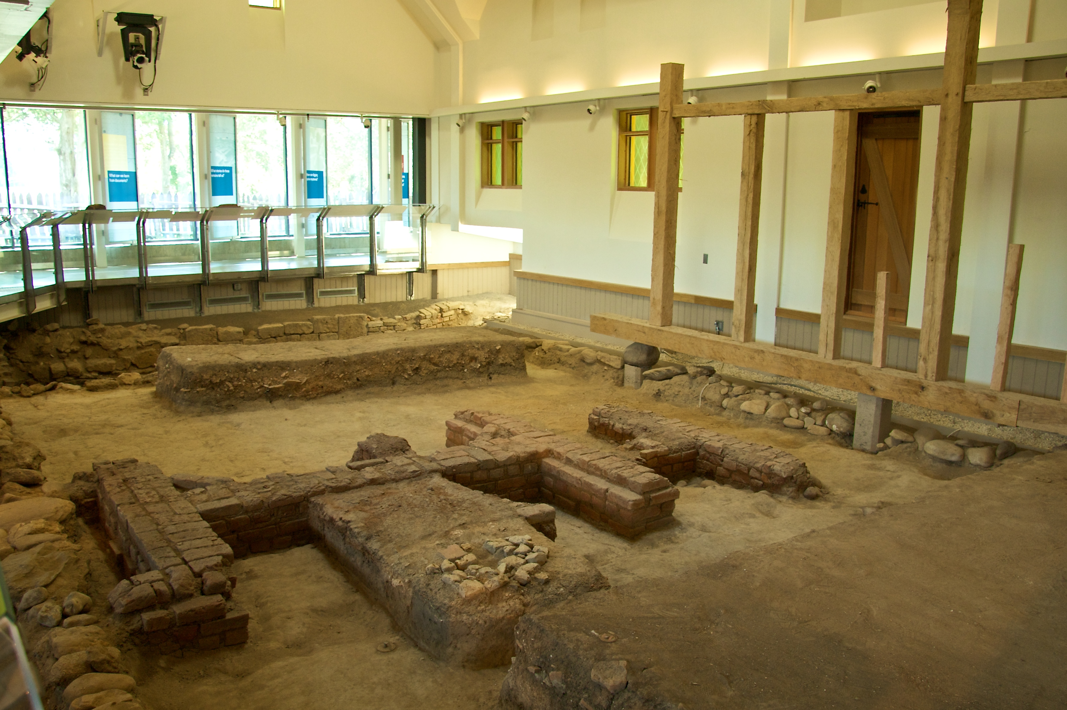 Interior shot of St. John's site, an archeology museum and one of the most historic spots in Maryland and North America. Photo by Rob Friesel.